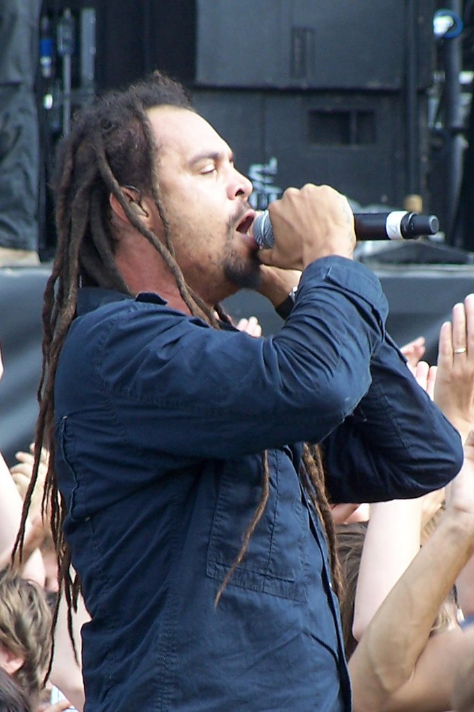 American musician Michael Franti